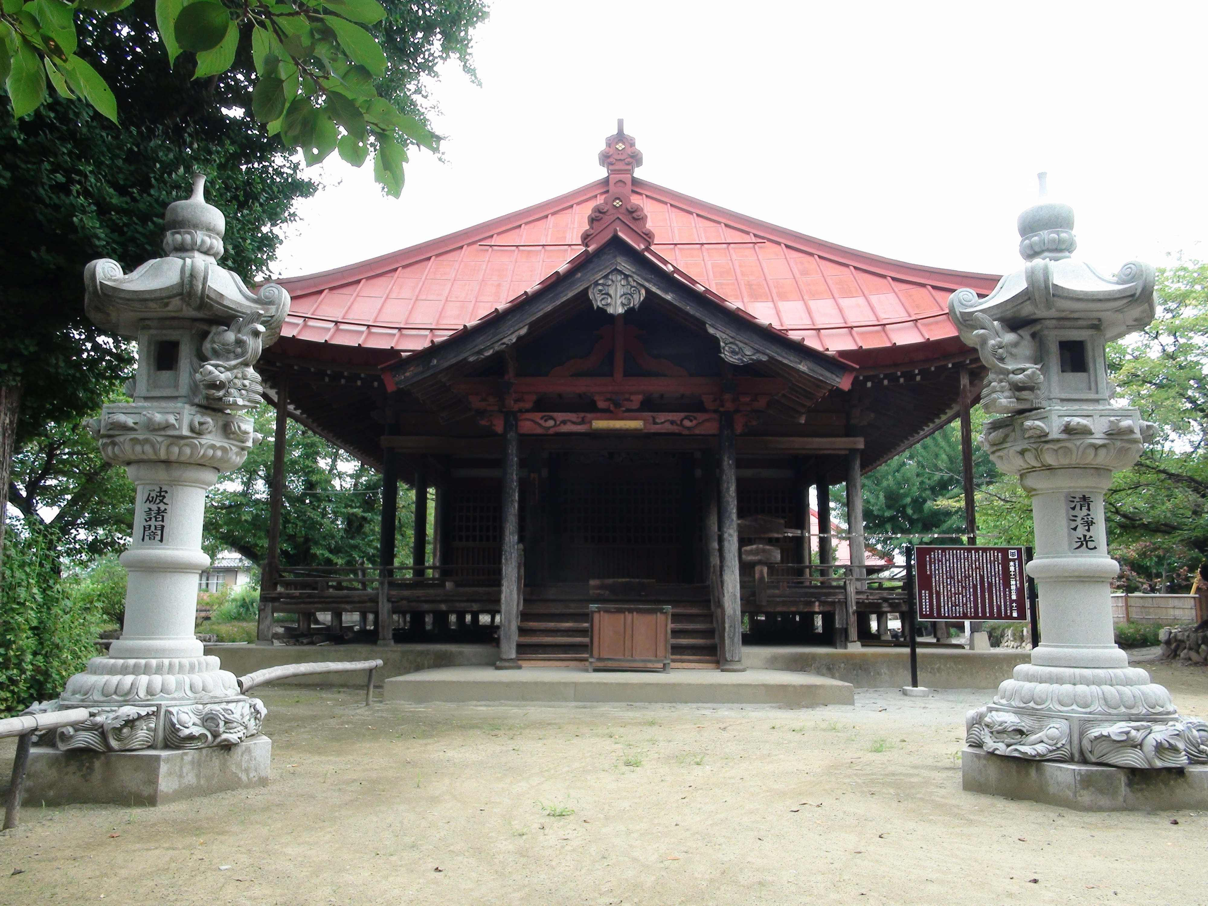 Yukaji Temple Yakushi-Do